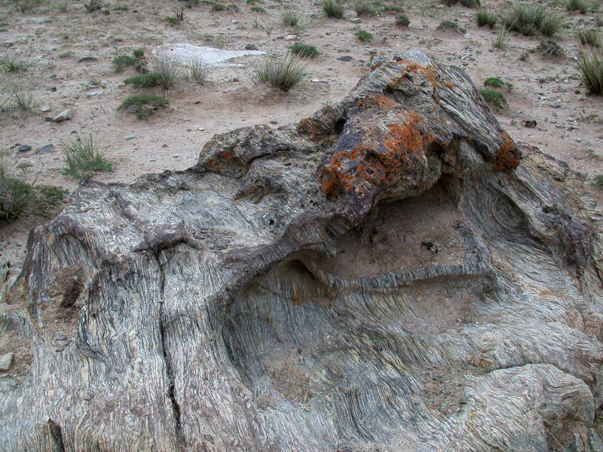 Boulder of gneiss eroded by the wind in the Qilian mountains, China.